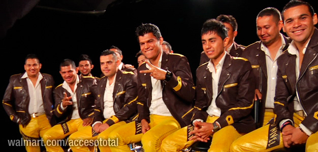 picture_04 from Banda Carnaval en Acceso Total